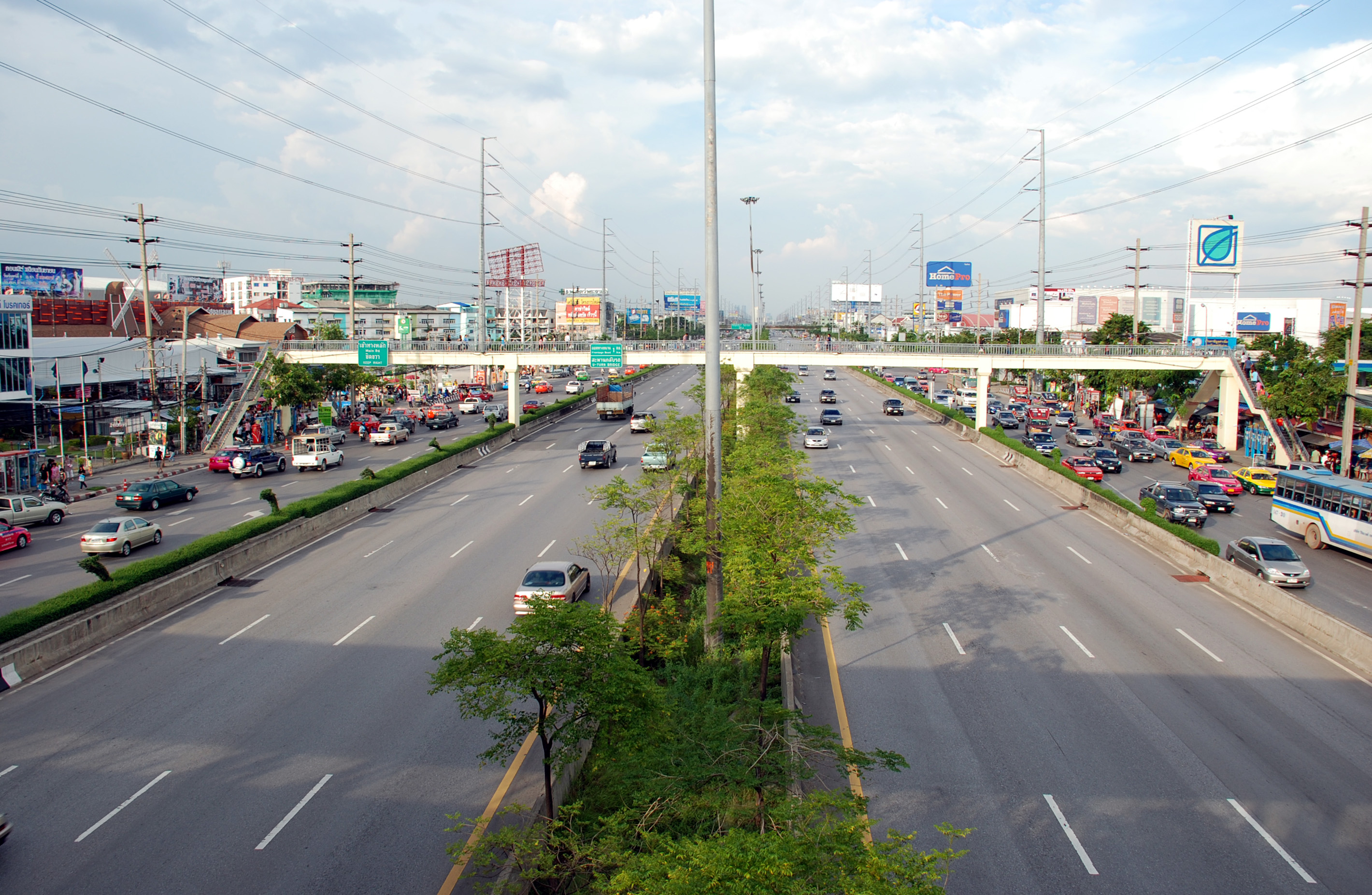 Rama II road. Look eest on the pedestrian bridge in front of Central Plaza Rama II.